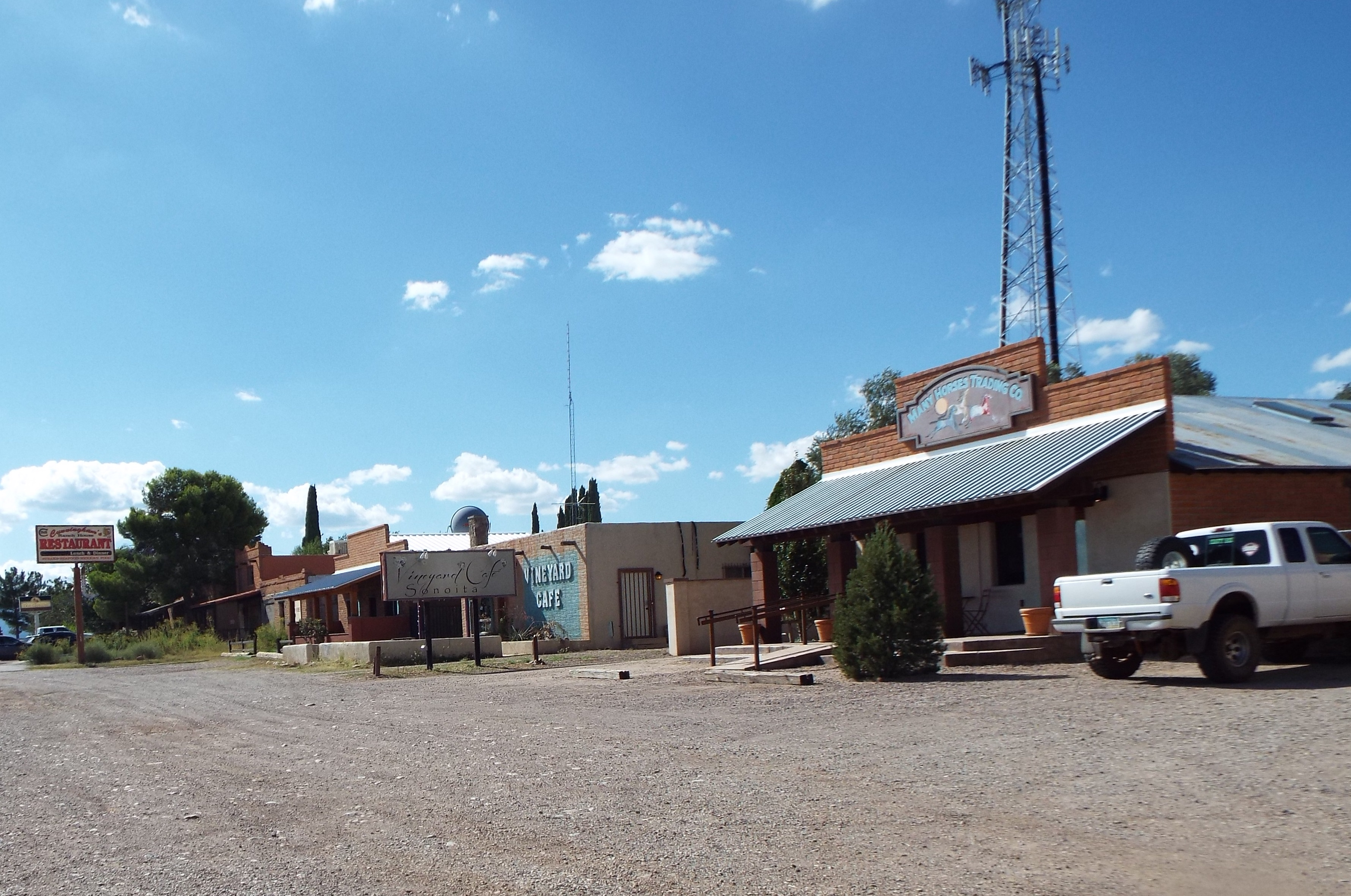 Downtown Sonoita, Arizona